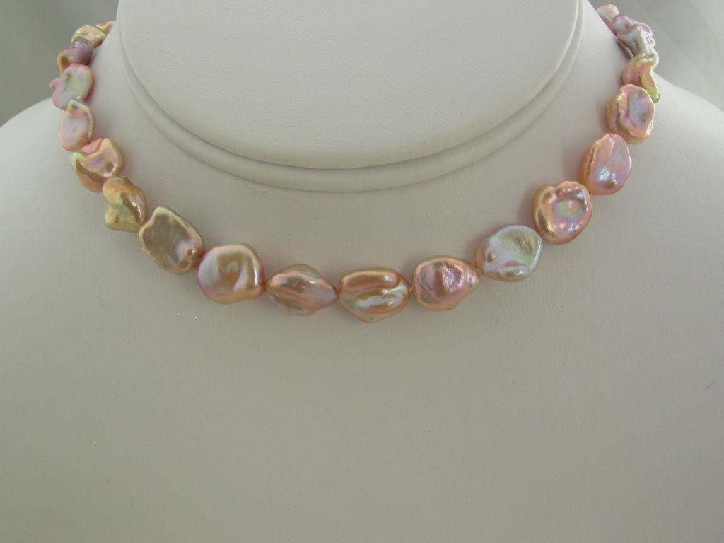 Chinese freshwater keshi pearl necklace